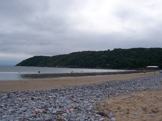 Oxwich Point. Taken from Oxwich Bay (grid ref changed by moderator)